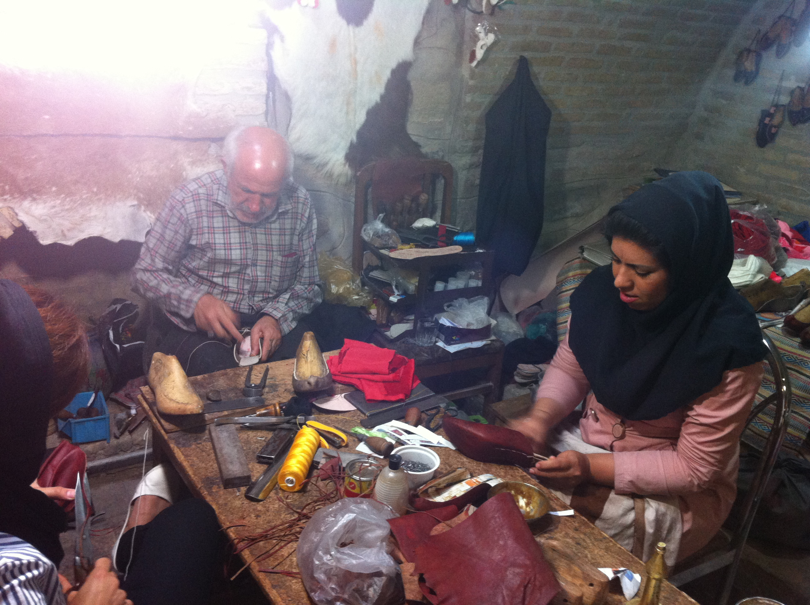 Historical Edifice of Rakhtshooy Khaneh which in means wash-house lies at the historical texture of the Zanjan city